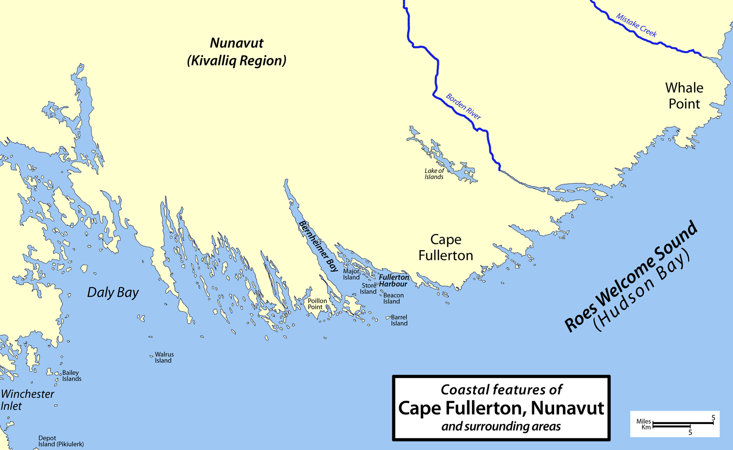 Map of Cape Fullerton, Nunavut, Canada and surrounding areas, including Whale Point, Daly Bay, Bernheimer Bay, Fullerton Harbour, Winchester Inlet, Depot Island (Pikiulerk), Bailey Islands, Walrus Island, Poillon Point, Major Island, Store Island, Beacon island, Barrel Island, Lake of Islands, Borden River, and Mistake Creek.